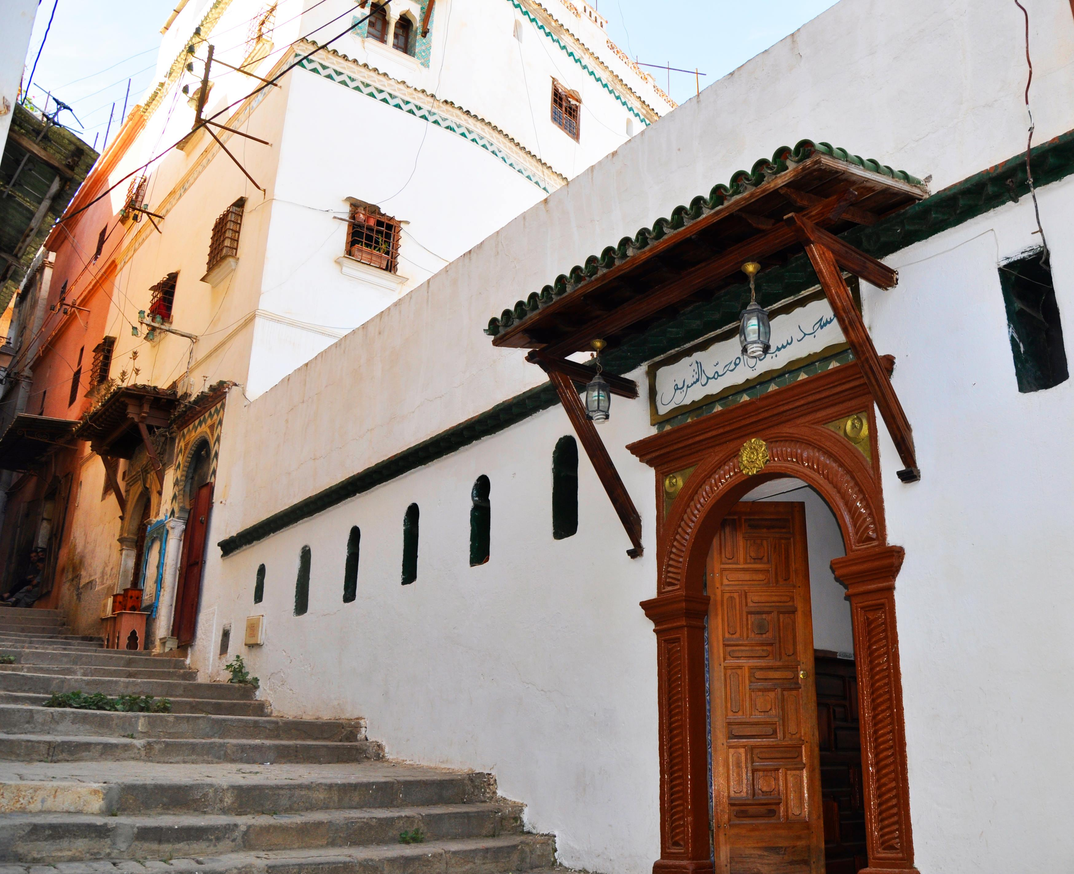 Mosque of Sidi Mohamd Cherif Zahar Casbah Algiers Algeria